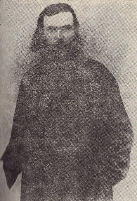 Photo of romanian priest Iraclie Porumbescu (1823-1896)